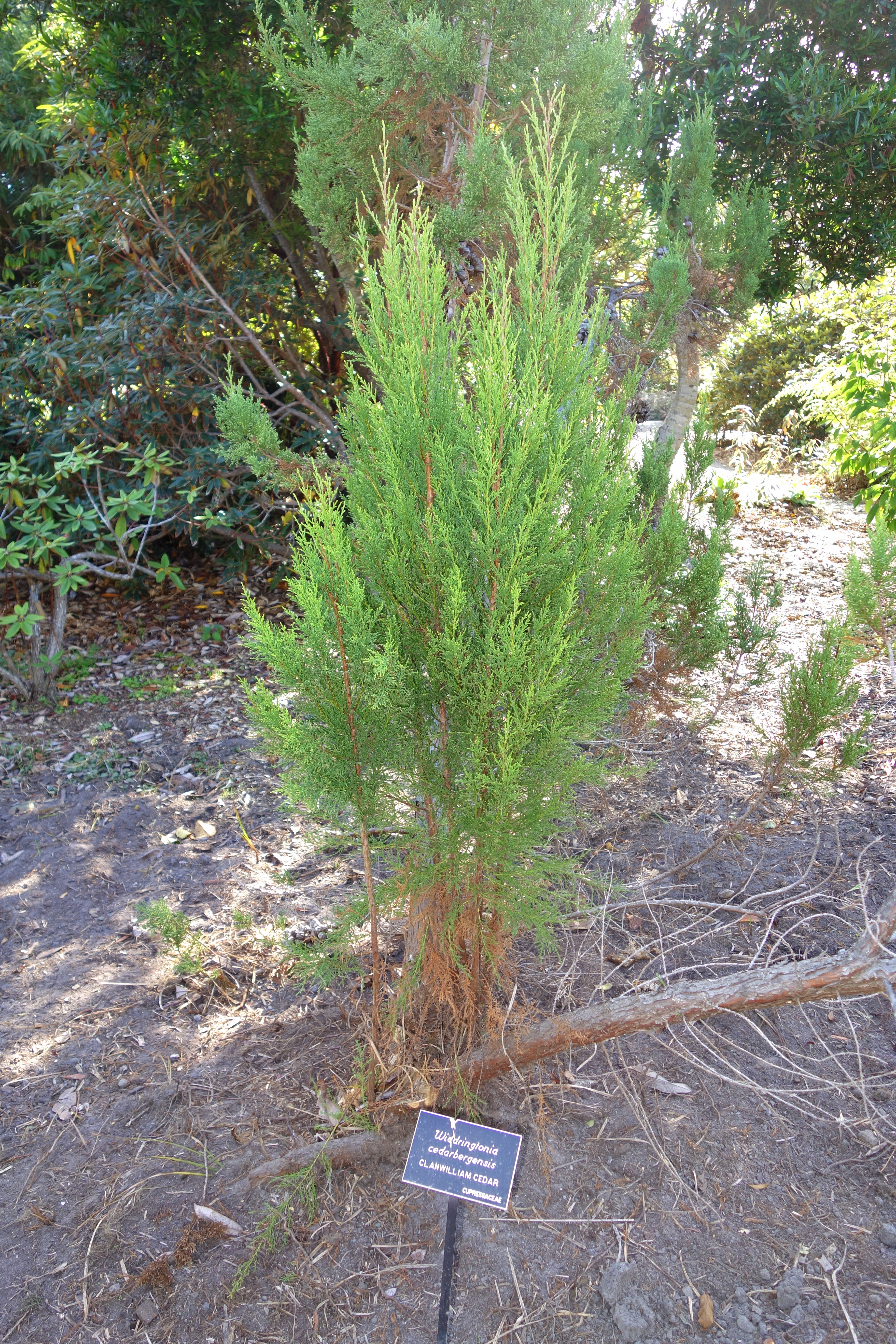 Botanical specimen in the Mendocino Coast Botanical Gardens, 18220 N Hwy 1, Fort Bragg, California, USA.